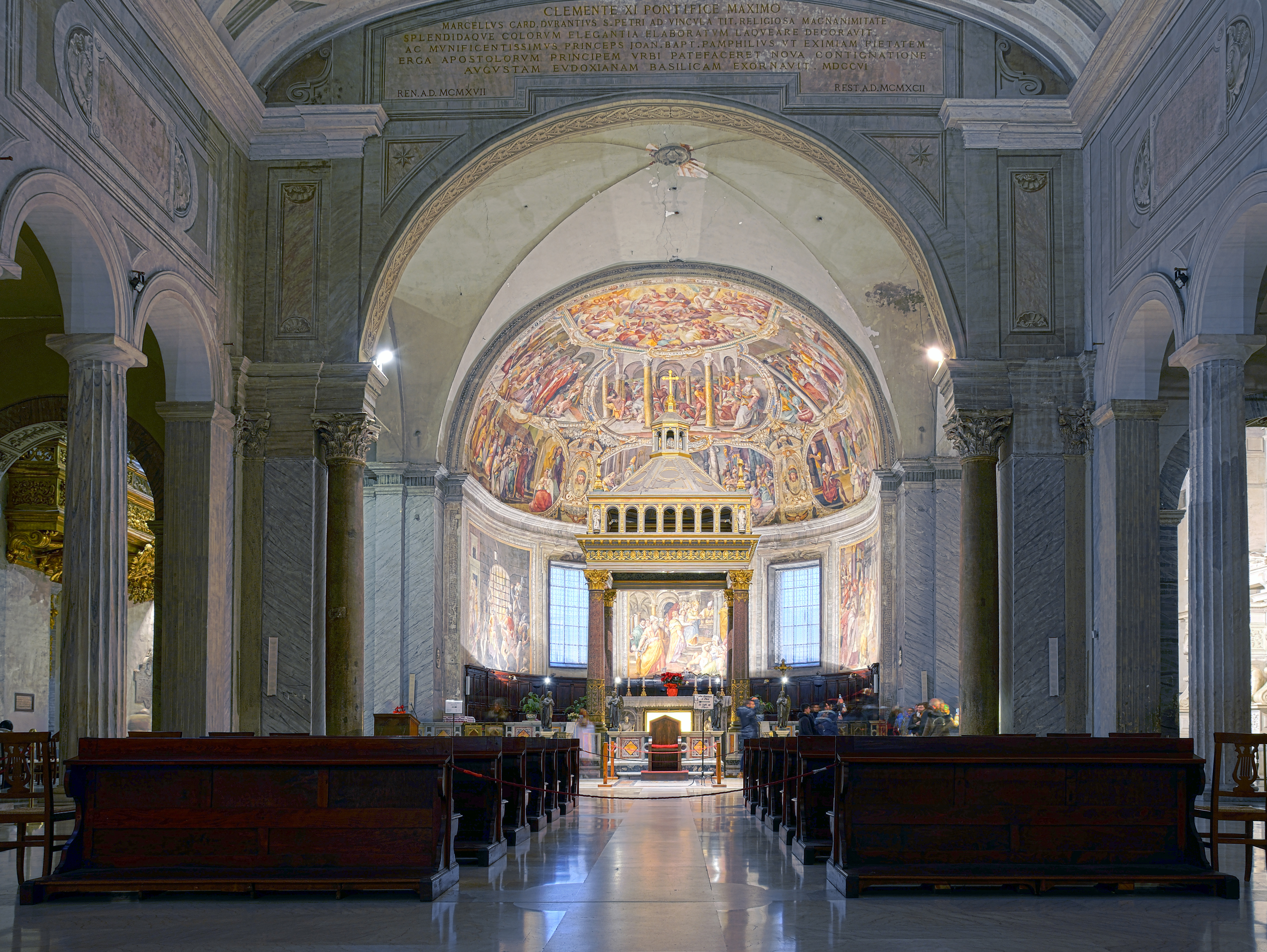 San Pietro in Vincoli (Rome) - Interior 2016